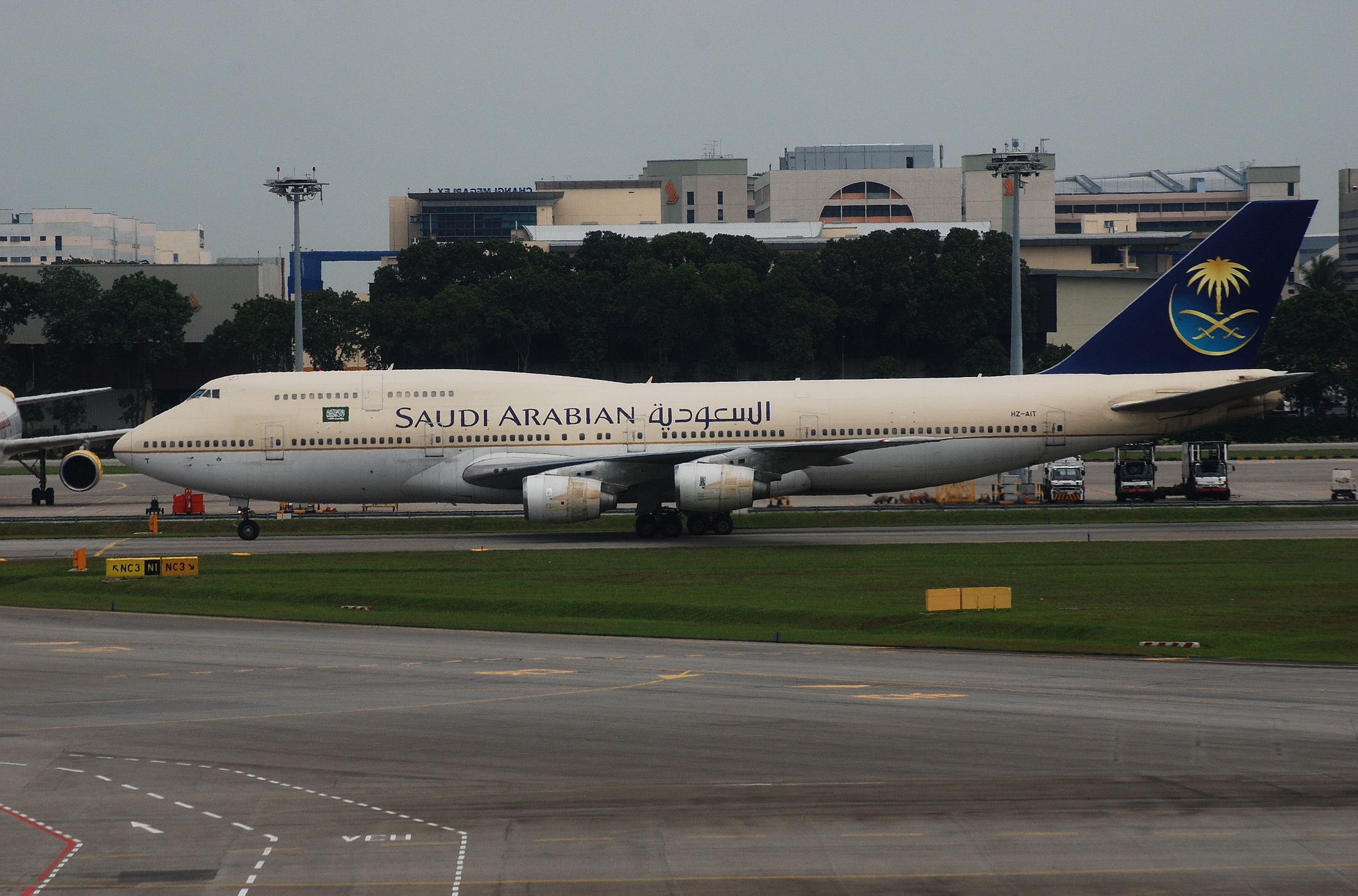 Saudi Arabian Airlines Boeing 747-300 (HZ-AIT) taxiing on North Cross at Singapore Changi Airport (SIN/WSSS).